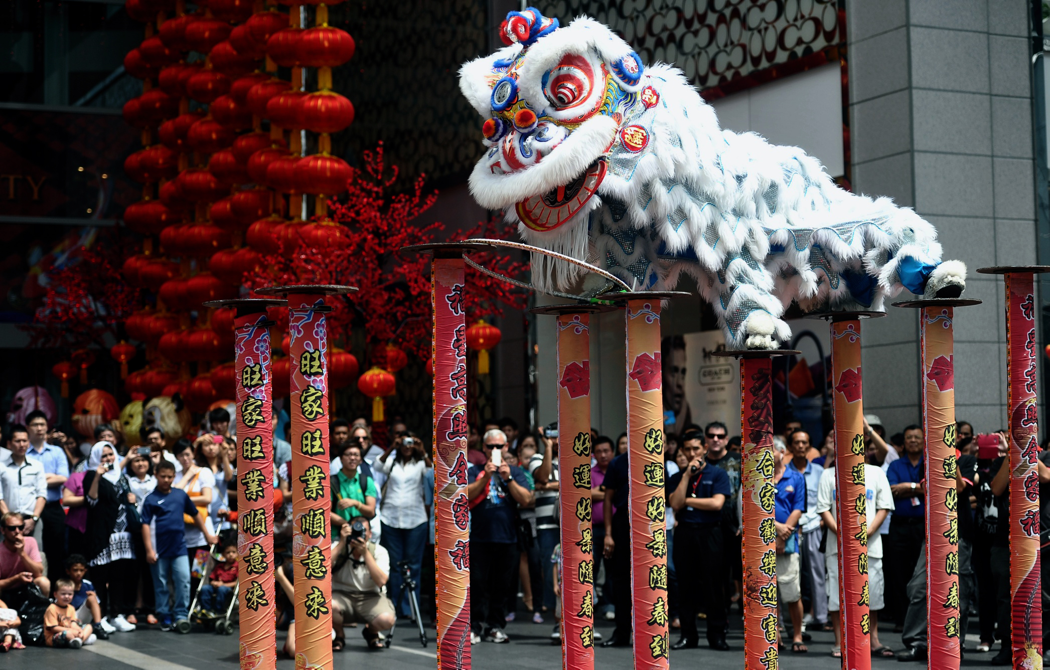 Kuala Lumpur,22/01/2013.A Lion dance performance during chinese new year preparations at Pavilion.Pix Firdaus Latif